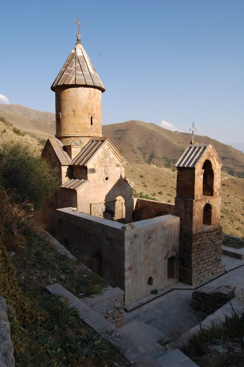 Spitakavor Monastery, Vayots Dzor, Armenia (view from N-W).